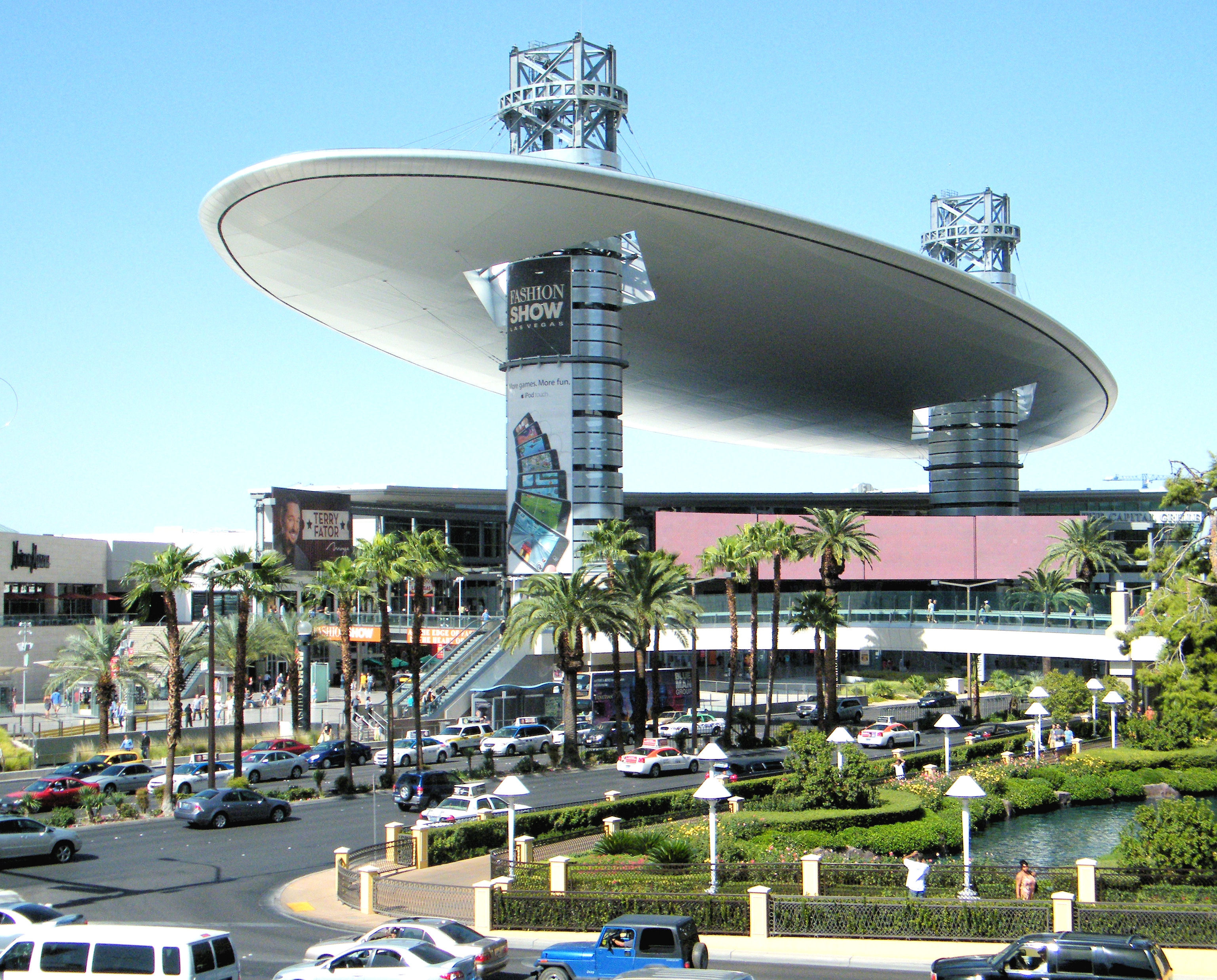 Fashion Show Mall on the Las Vegas Strip in Paradise, Nevada. This new version was photographed by user Coolcaesar on October 4, en:2009 and directly uploaded by him to Commons. The previous version was Photographed by user Coolcaesar on October 28, en:2006.